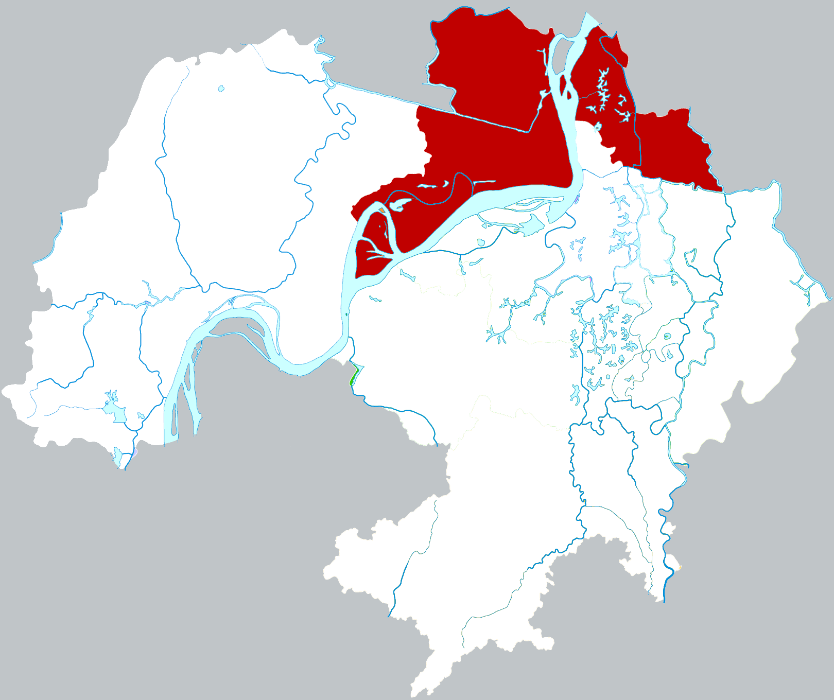 Location of Jiujiang district in Wuhu city, China